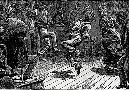 William Henry Lane ("Master Juba") dances in New York's Five Points District as Charles Dickens and a companion watch in the background. Engraving from American Notes by Charles Dickens (1842).